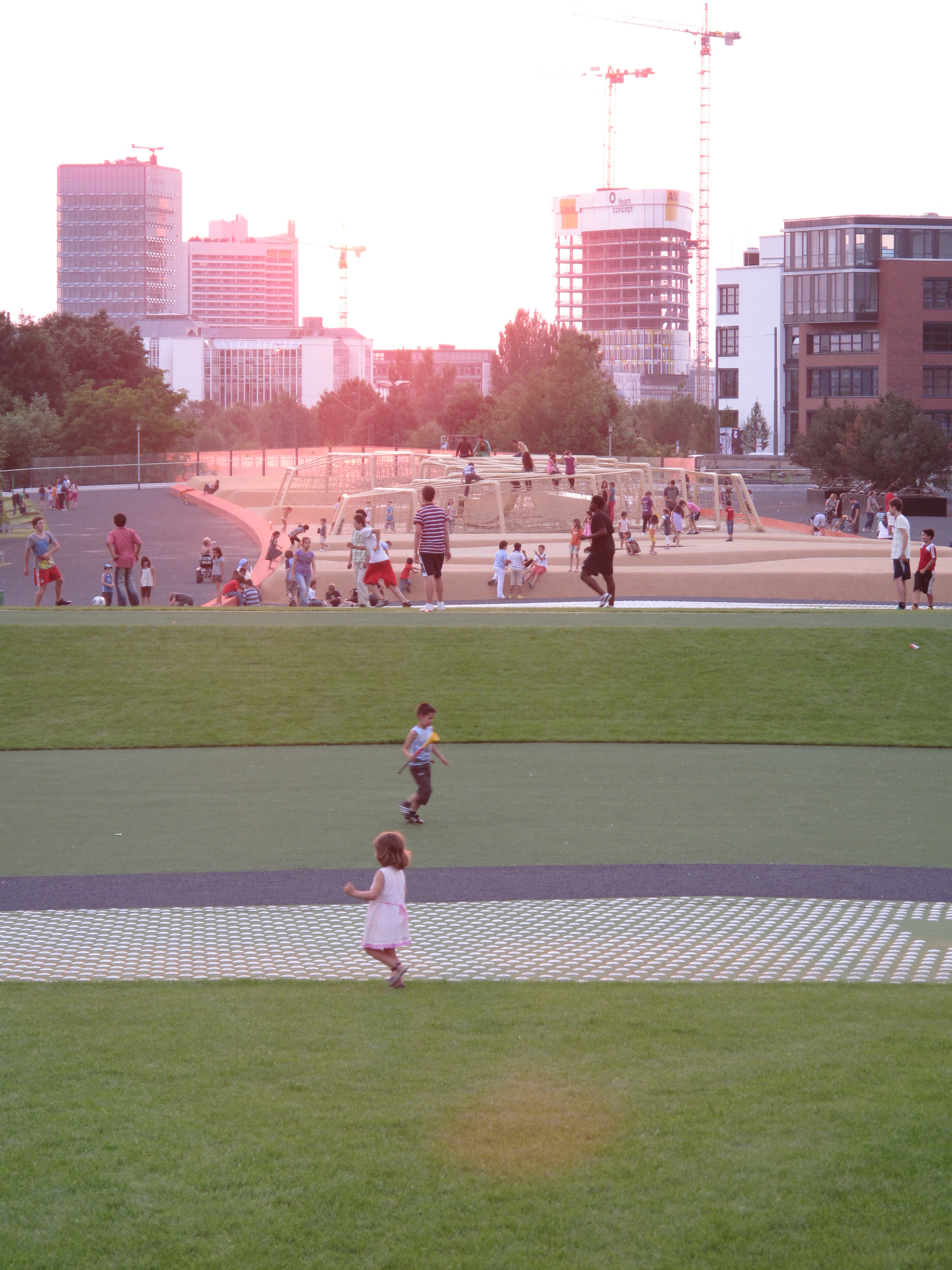 The Quartiersplatz Theresienhöhe in Munich's district Schwanthalerhöhe.